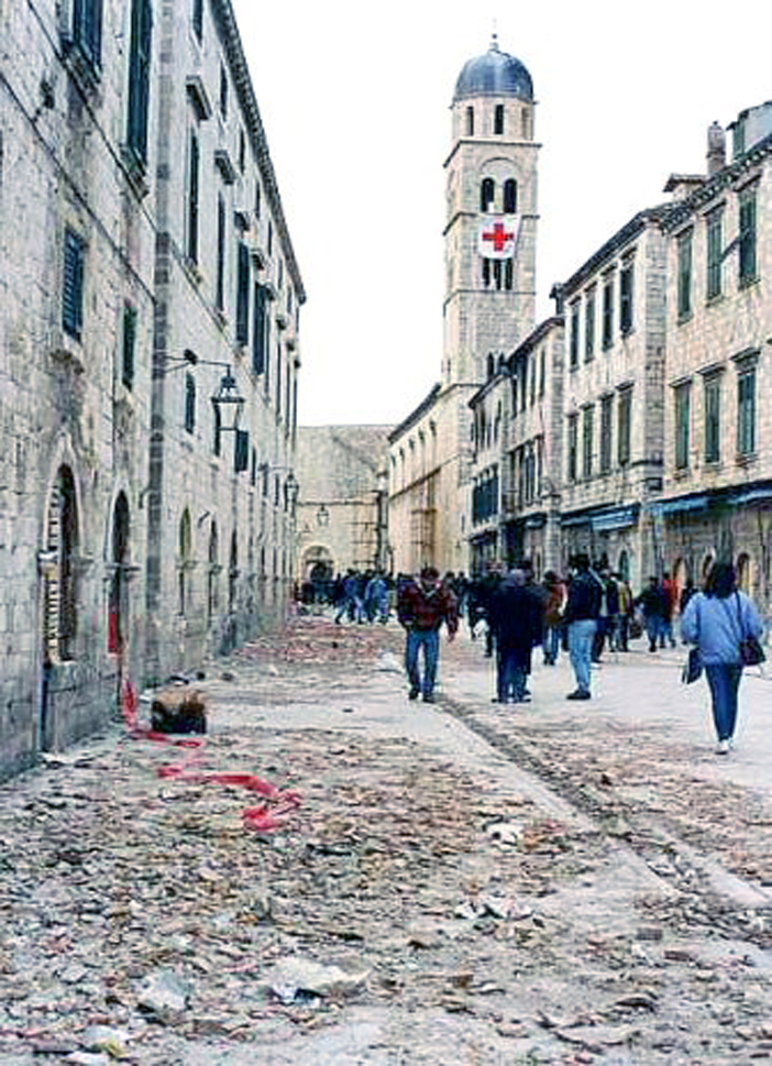 Typical street scene. One of a set here